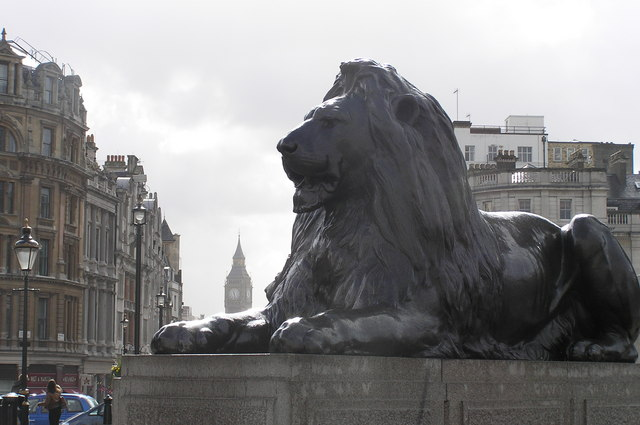 Empire Lion at Trafalgar Square, guarding (or devouring) the Palace of Westminster.